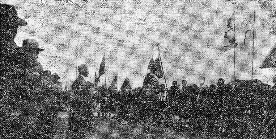 Football at the 1922 Korean National Sports Festival.